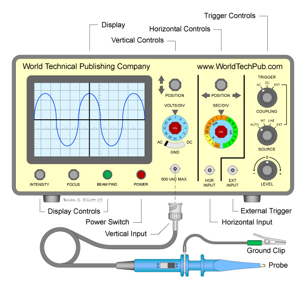 Front Panel View of a Basic Oscilloscope